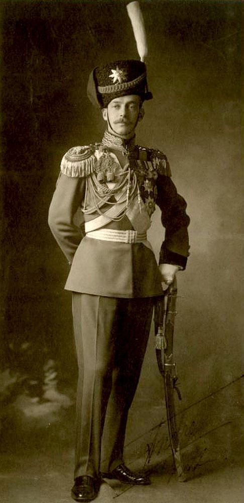 Grand Duke Andrei Vladimirovich, Boasson and Eggler G.